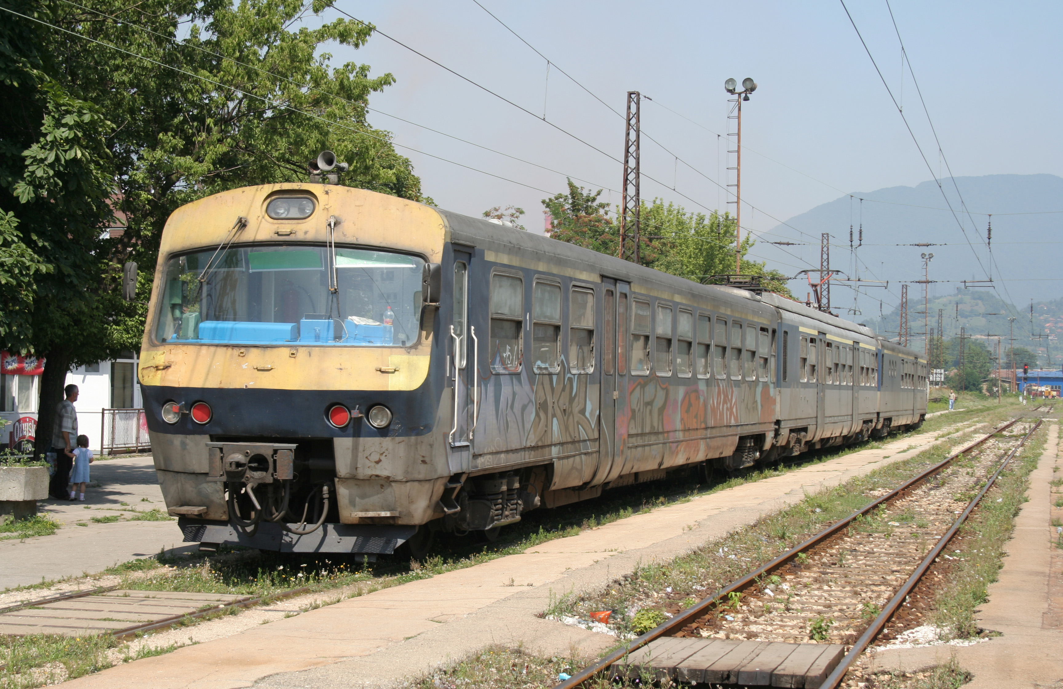 Electric train in Zenica, Bosnia